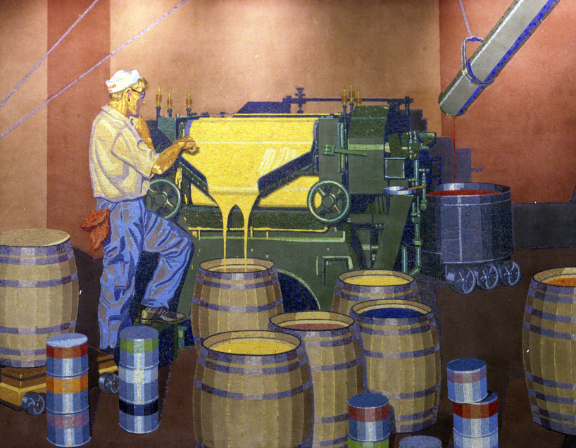 Part of the Winold Reiss industrial murals. No evidence of copyright notices, and not found in subsequent catalogs.